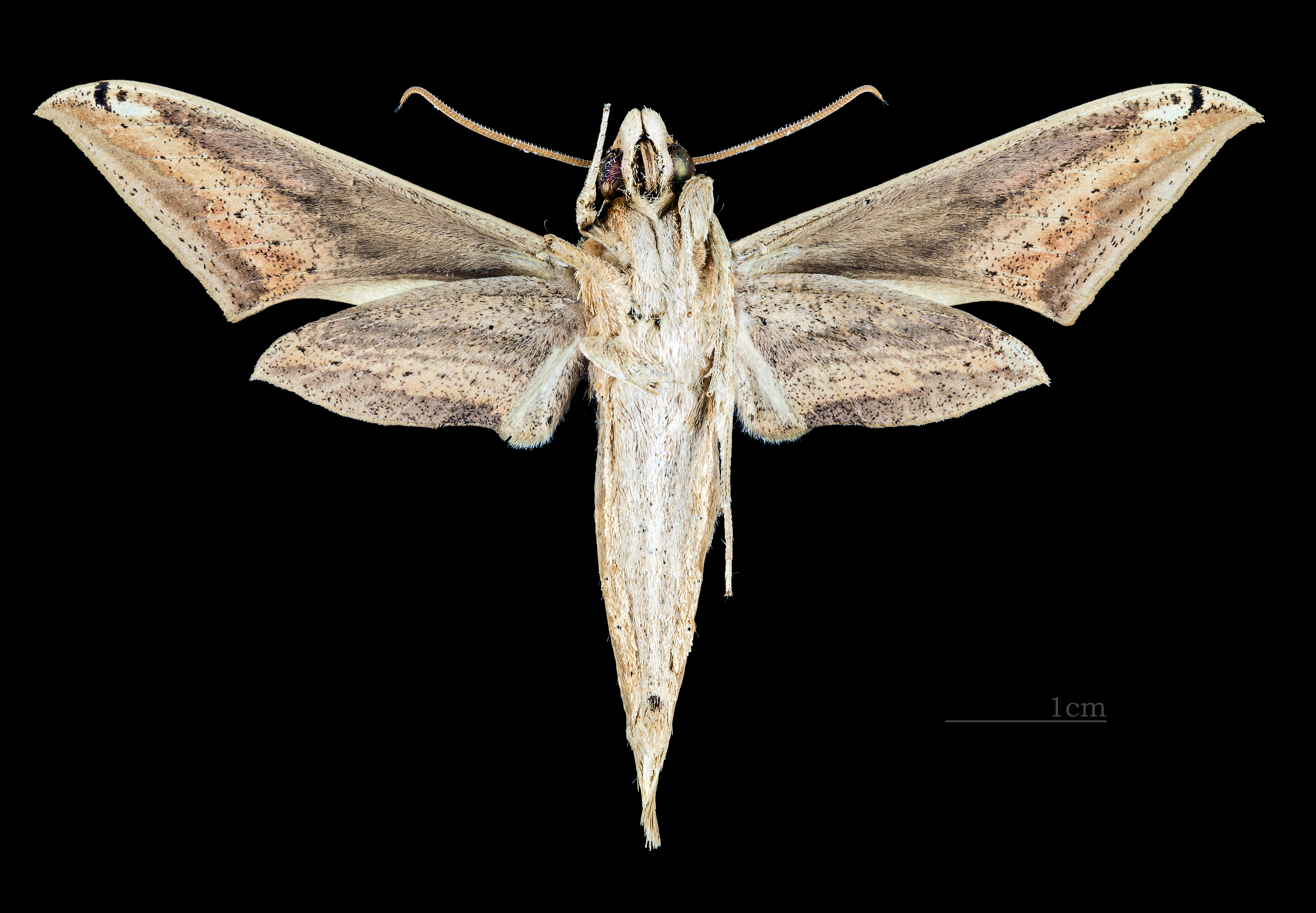 Xylophanes aglaor - △ Ventral side Collection of the Mathematician Laurent Schwartz